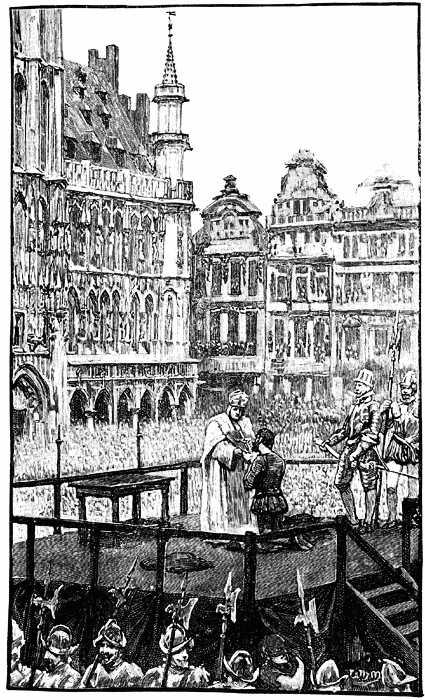 An illustration of Egmont and Horn, being executed by beheading. On June 5, 1568, both men, Lamoral, Count of Egmont, aged only 46 and Philip de Montmorency, Count of Horn, aged 44, were beheaded in the Grand Place in Brussels, Egmont's uncomplaining dignity on the occasion being widely noted. Both had been condemned to death by the Council of Troubles, led by the Governor of the Spanish Netherlands, Fernando Álvarez de Toledo, 3rd Duke of Alba - even though they were Catholics. Their deaths led to public protests throughout the Netherlands, and contributed to the Dutch revolt against the Spanish that set off the Eighty Years' War and resulted in the formal independence of the Dutch Republic in 1648.